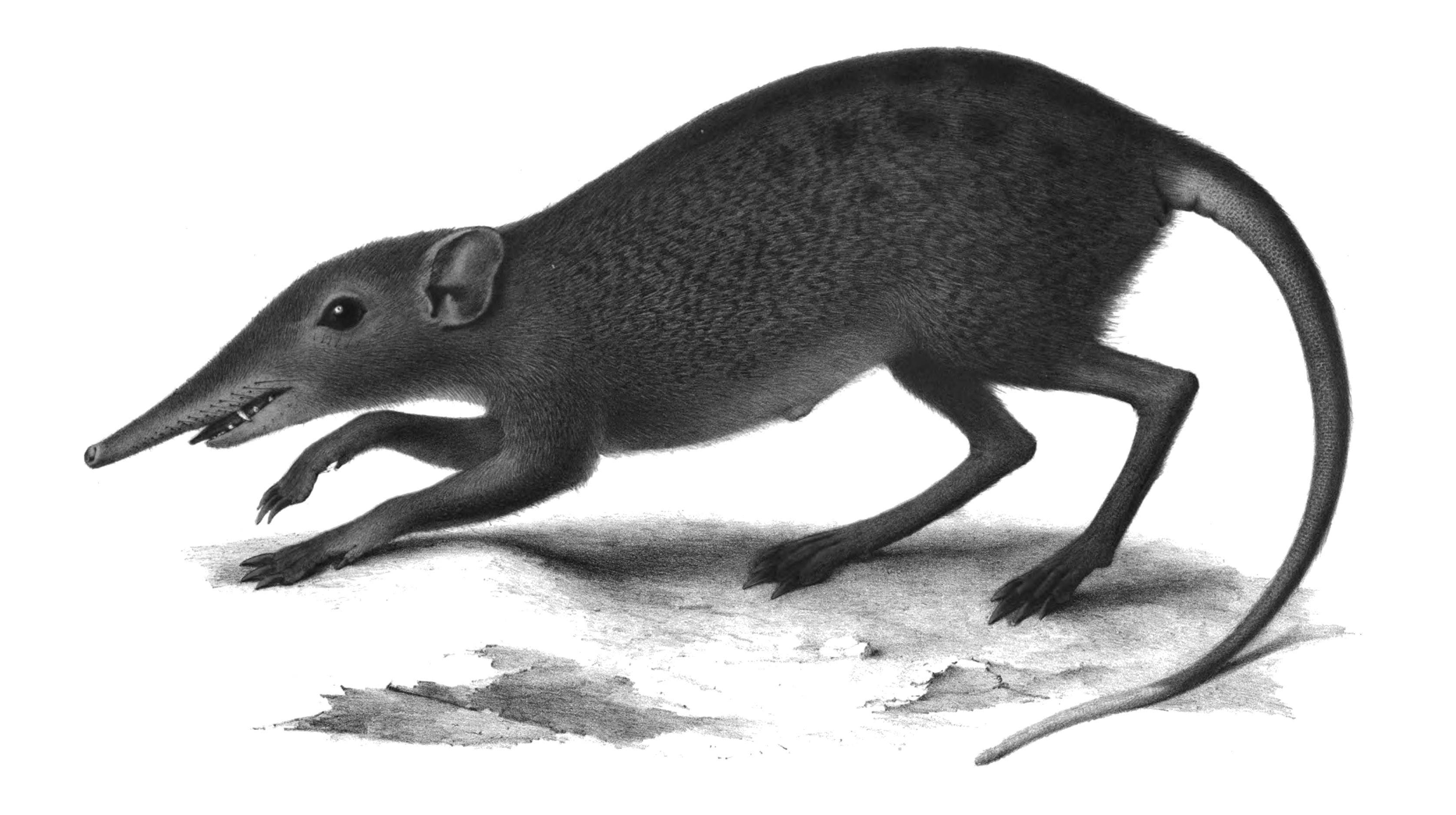 Drawing of Rhynchocyon cirnei, printed in Wilhelm Peters: Naturwissenschaftliche Reise nach Mossambique: auf Befehl seiner Majestät des Königs Friedrich Wilhelm IV in den Jahren 1842 bis 1848 ausgeführt. Berlin, 1852, pp. 1–205 (pl. 21)